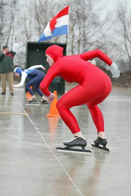 Unknown women speedskaters at the start of an outdoor short track race in the Netherlands in 2002. The sport is known as "Kortebaanschaatsen" in Dutch. Two sprinters race over a length of 140 meters (for men it is 160 meters).